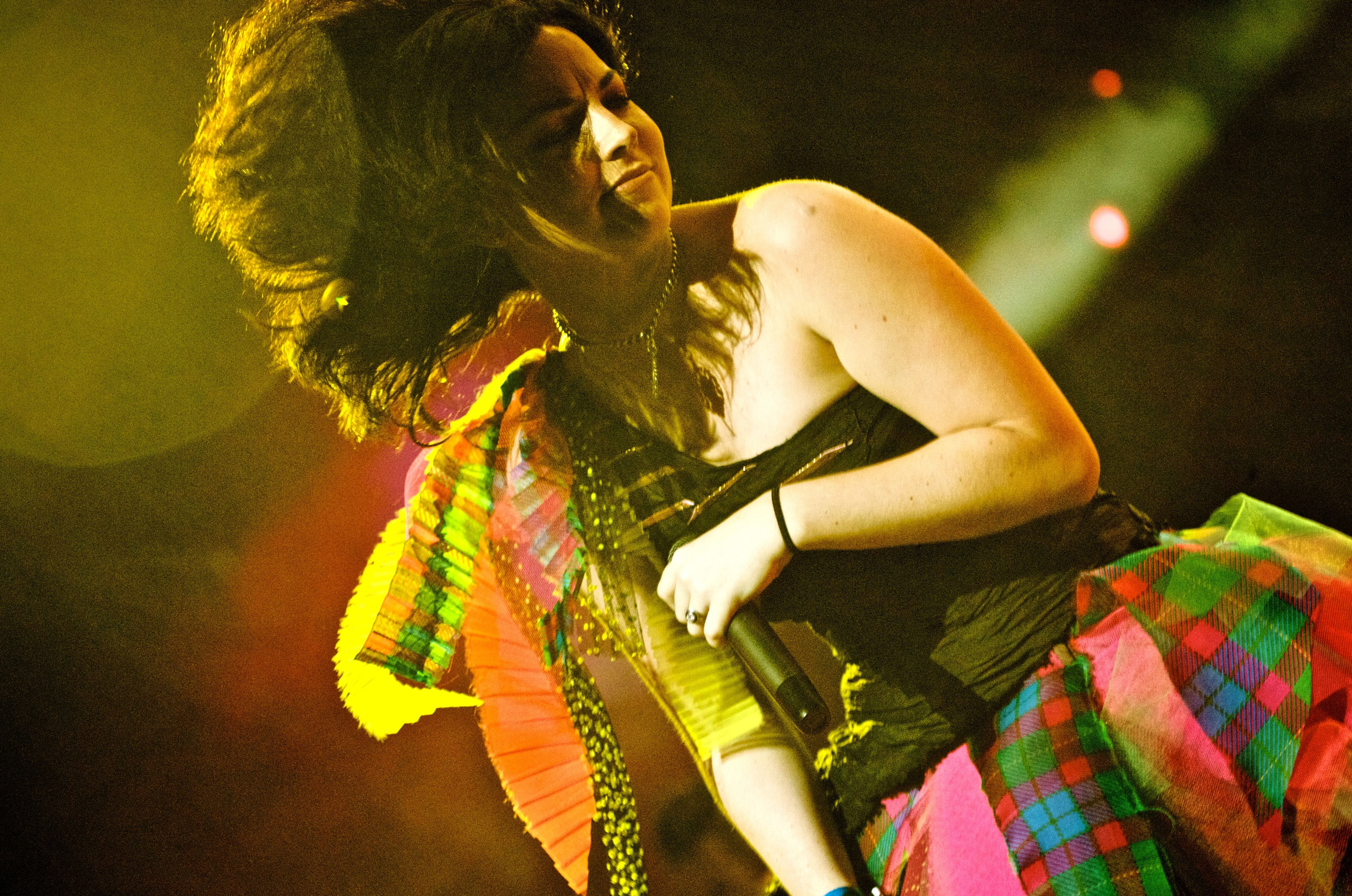 Amy Lee of Evanescence in Maquinária Festival, occurred in November 8 2009 at Chácara do Jóquei, São Paulo, Brazil.